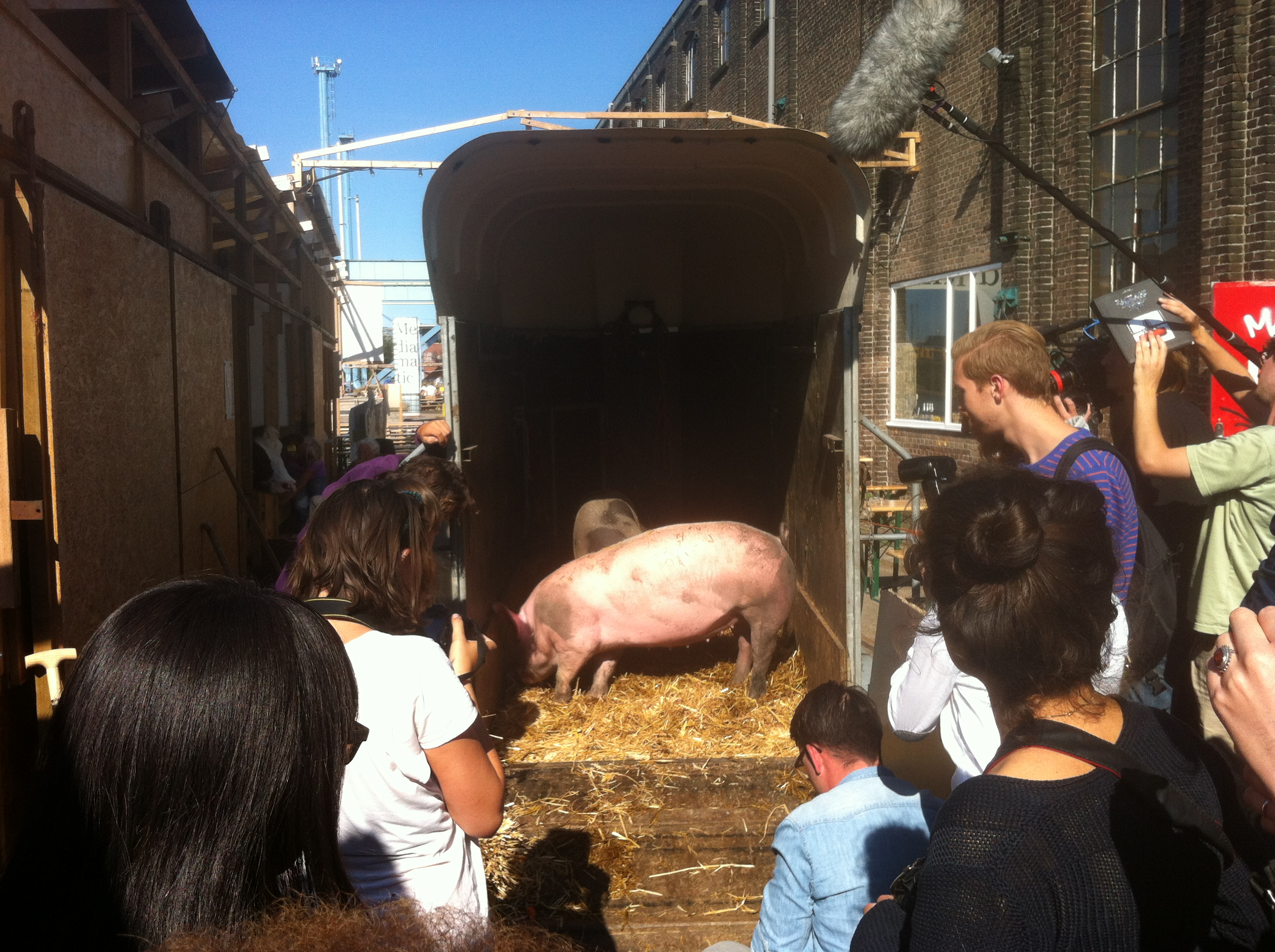 The pigs of the Tostifabriek are shipped off to the slaughterhouse.